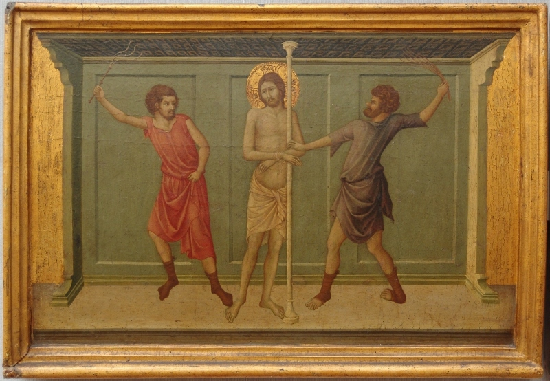 This is a fragment of the predella of the altarpiece painted for the high altar of the Franciscan church of Santa Croce. It was dismantled in 1566 and installed in the friars' dormitory. At the end of the eighteenth century or in 1810, when the friary was suppressed, most, if not all of the altarpiece entered the Young Ottley Collection. The predella scenes, showing the Passion of Christ, would have had the following pieces: the ‘Last Supper’ (Lehman Collection, Metropolitan Museum of Art, New York), the ‘Betrayal’ (No.1188, National Gallery, London), the ‘Flagellation’ (Gemäldegalerie, Berlin), the ‘Ascent to Calvary’, the ‘Deposition’ (Nos.1189 and 3375, National Gallery, London), the ‘Entombment’ (Gemäldegalerie, Berlin), and the ‘Resurrection’ (No.4191, National Gallery, London)